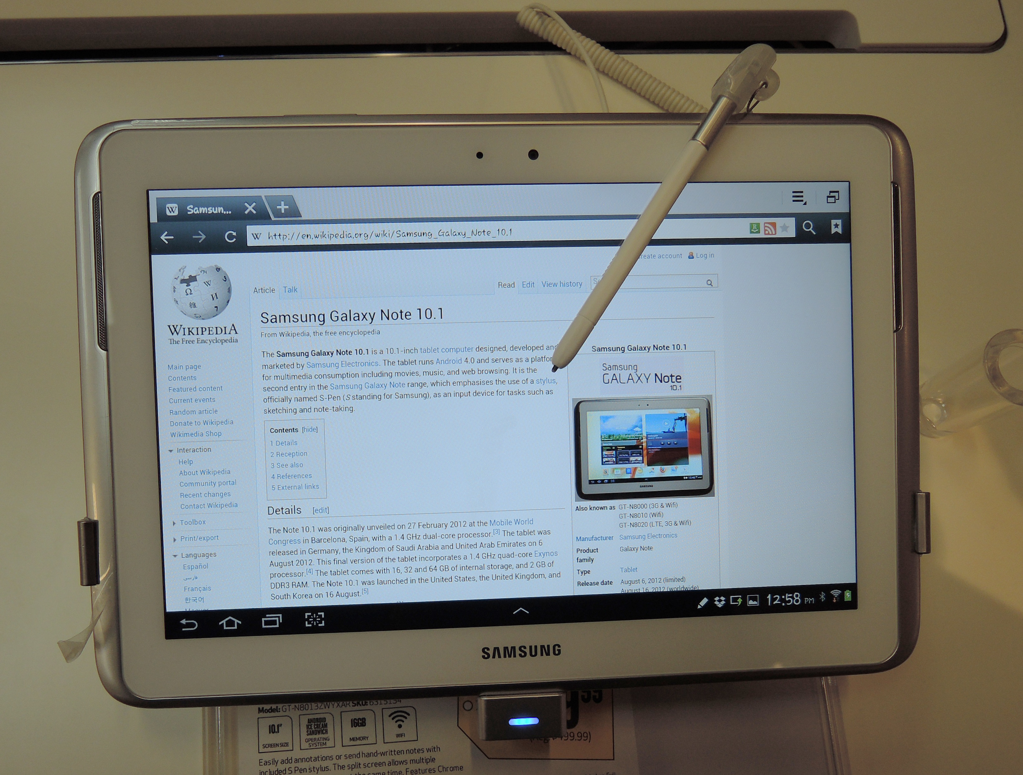 Galaxy Note at Best Buy